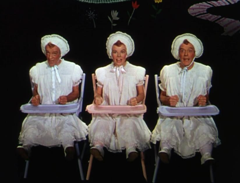 L. to R. : Fred Astaire, Nanette Fabray & Jack Buchanan (number Triplets) in The Band Wagon - trailer (cropped screenshot)